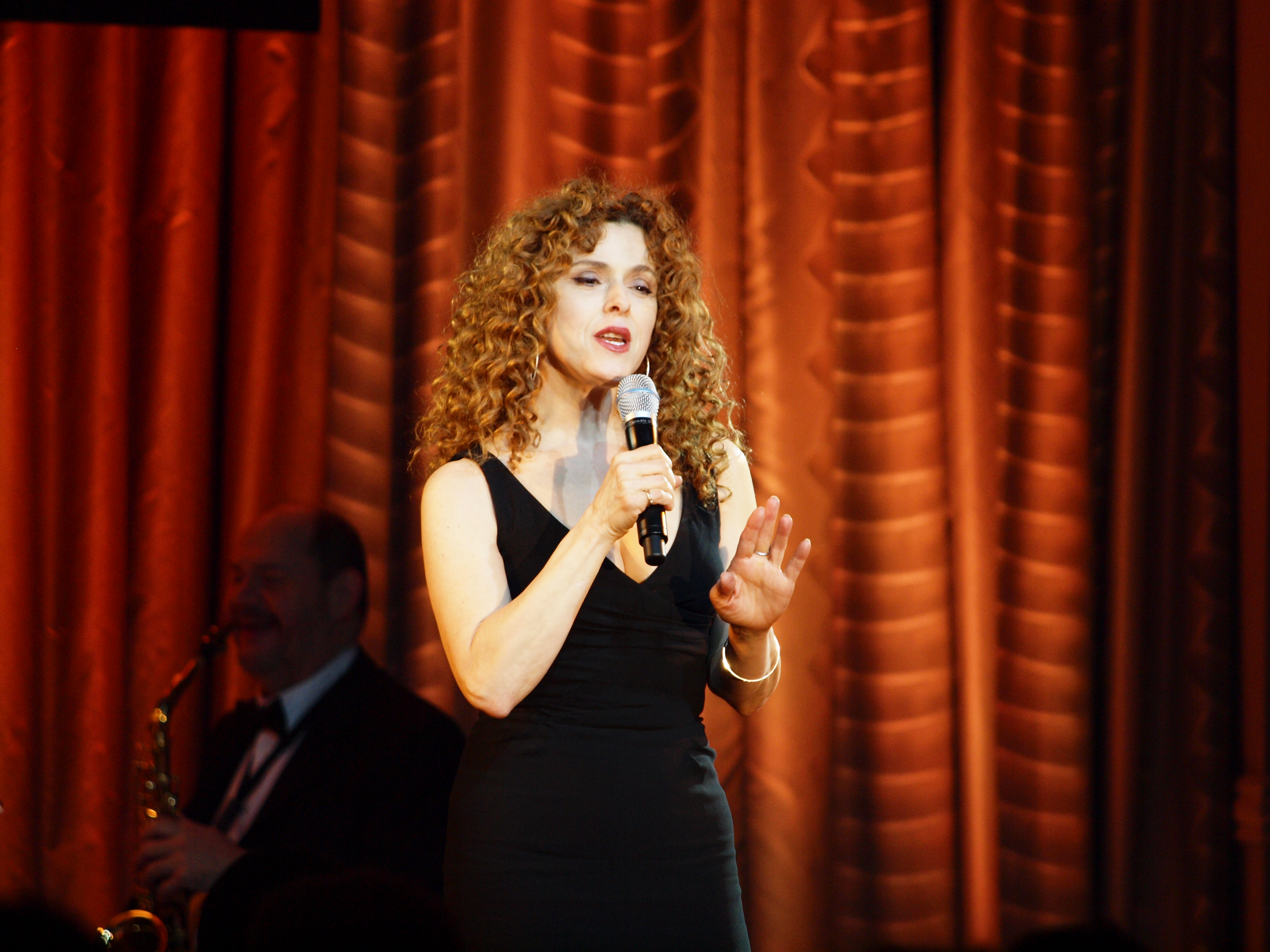 Bernadette Peters at the Drama League Benefit Gala Honoring Angela Lansbury, February 8, 2010. The Pierre, New York City, photo by Rob Rich